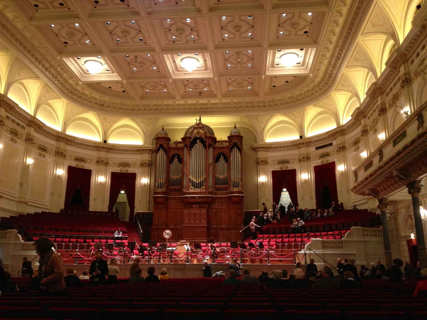 Main hall of the concertgebouw